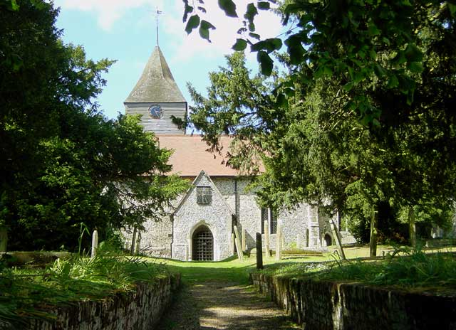 Church of Saints Peter and Paul, Lynsted. The gable of the south porch has a sun dial which bears the legend "Every moment well improved secures an age in Heaven."